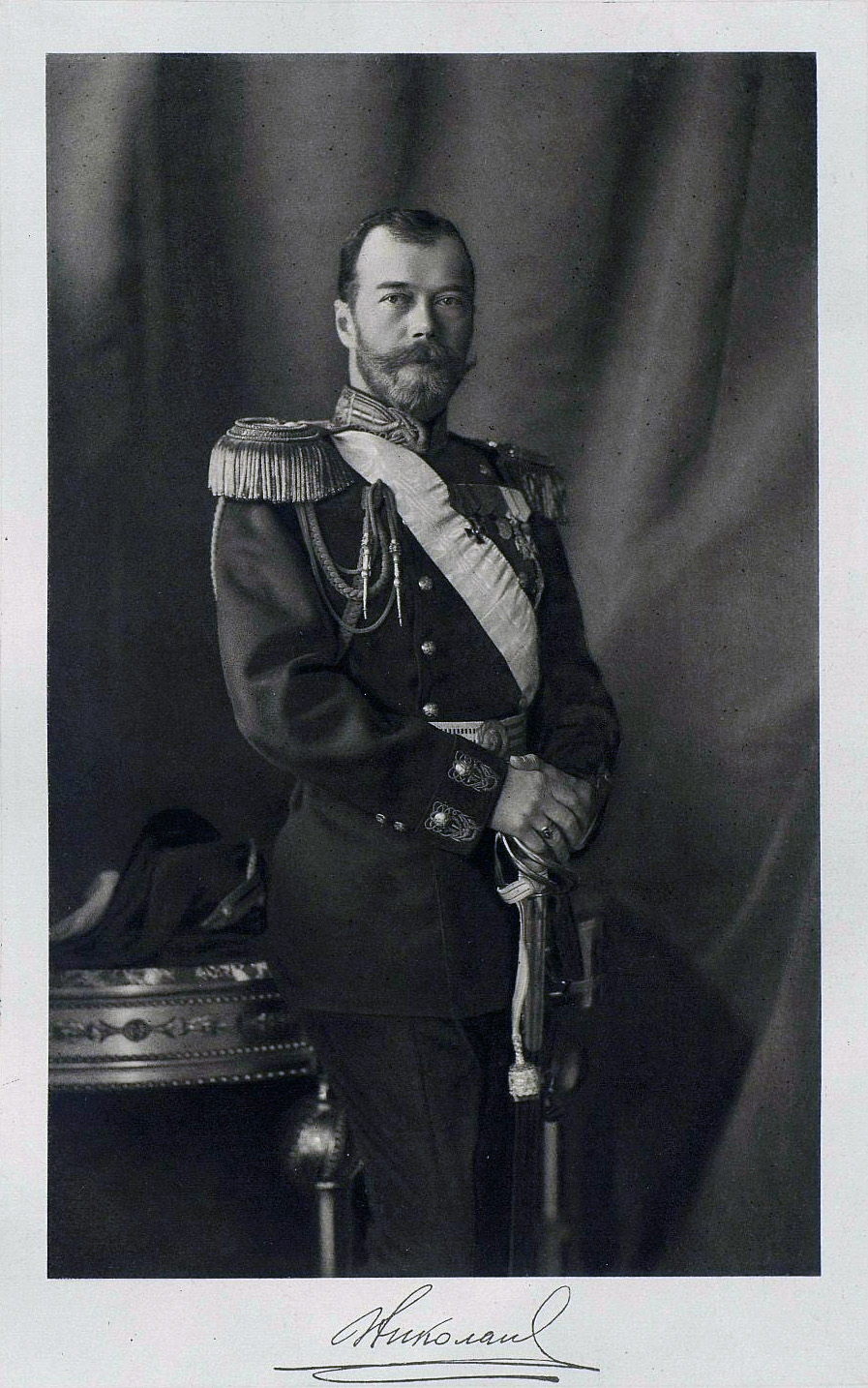 Nikolay II